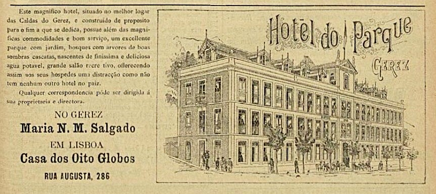 Hotel do Parque